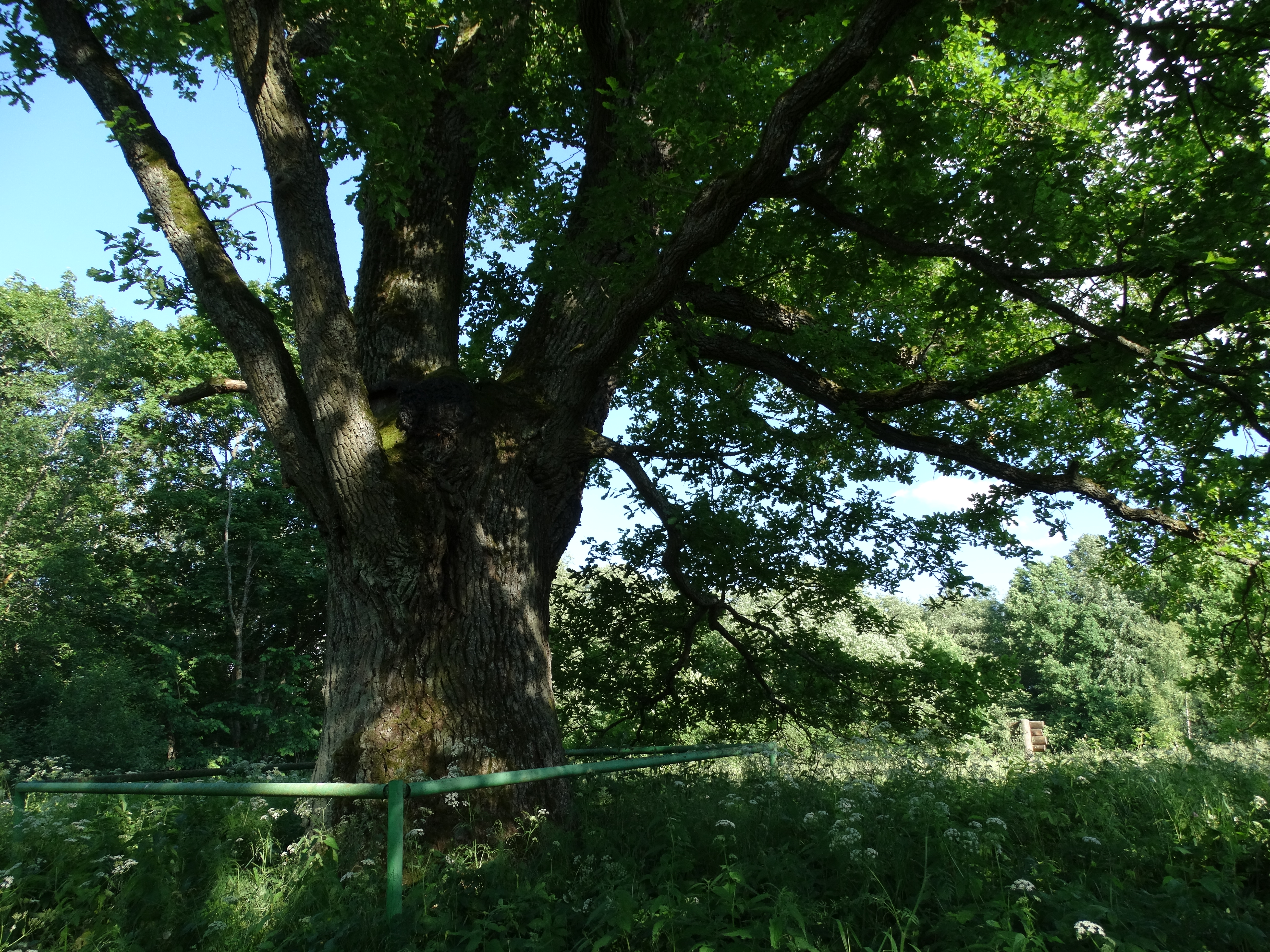 Oak in Felinka forest, Ukmergė district, Lithuania